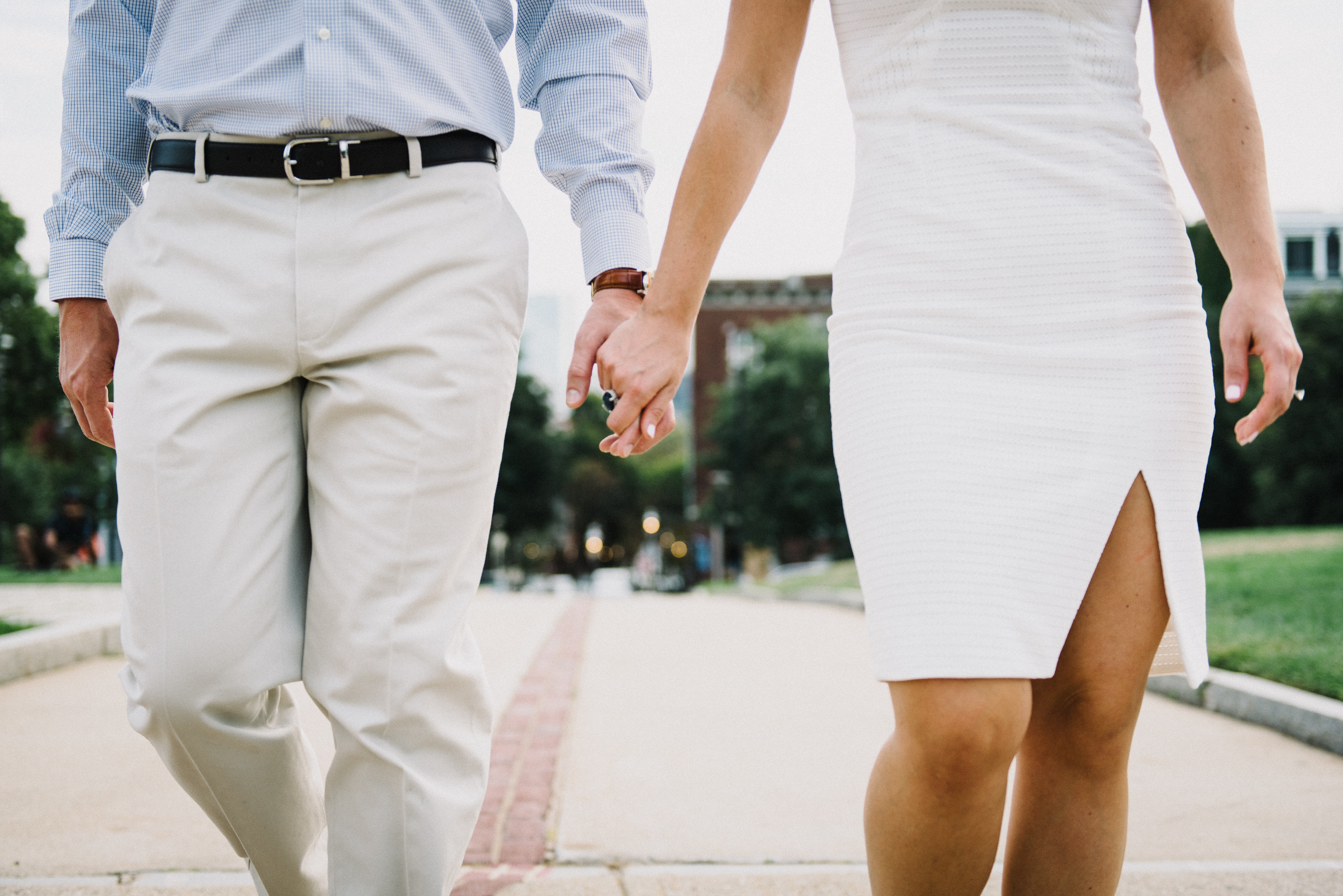 Adult couple holding hands